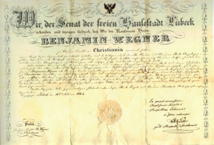 The merchant Benjamin Wegner is appointed as the Consul to Norway of the sovereign Hanseatic city-state of Lübeck